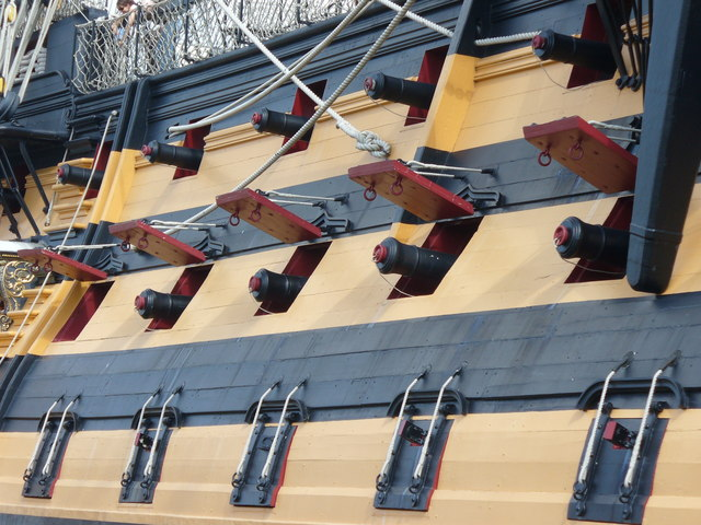 Give Them a Broadside! Wooden-hulled HMS Victory and a selection of cannons. This was Lord Nelson's flagship.